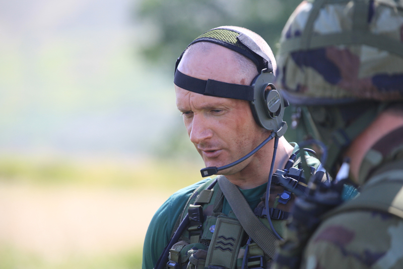 Chief of Staff Lt Gen Sean Mc Cann, visiting the E Bde RDF Annual Camp in Glen of Imall